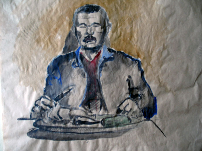 EN: sketch of an old man. LT: Seno žmogaus eskizas.